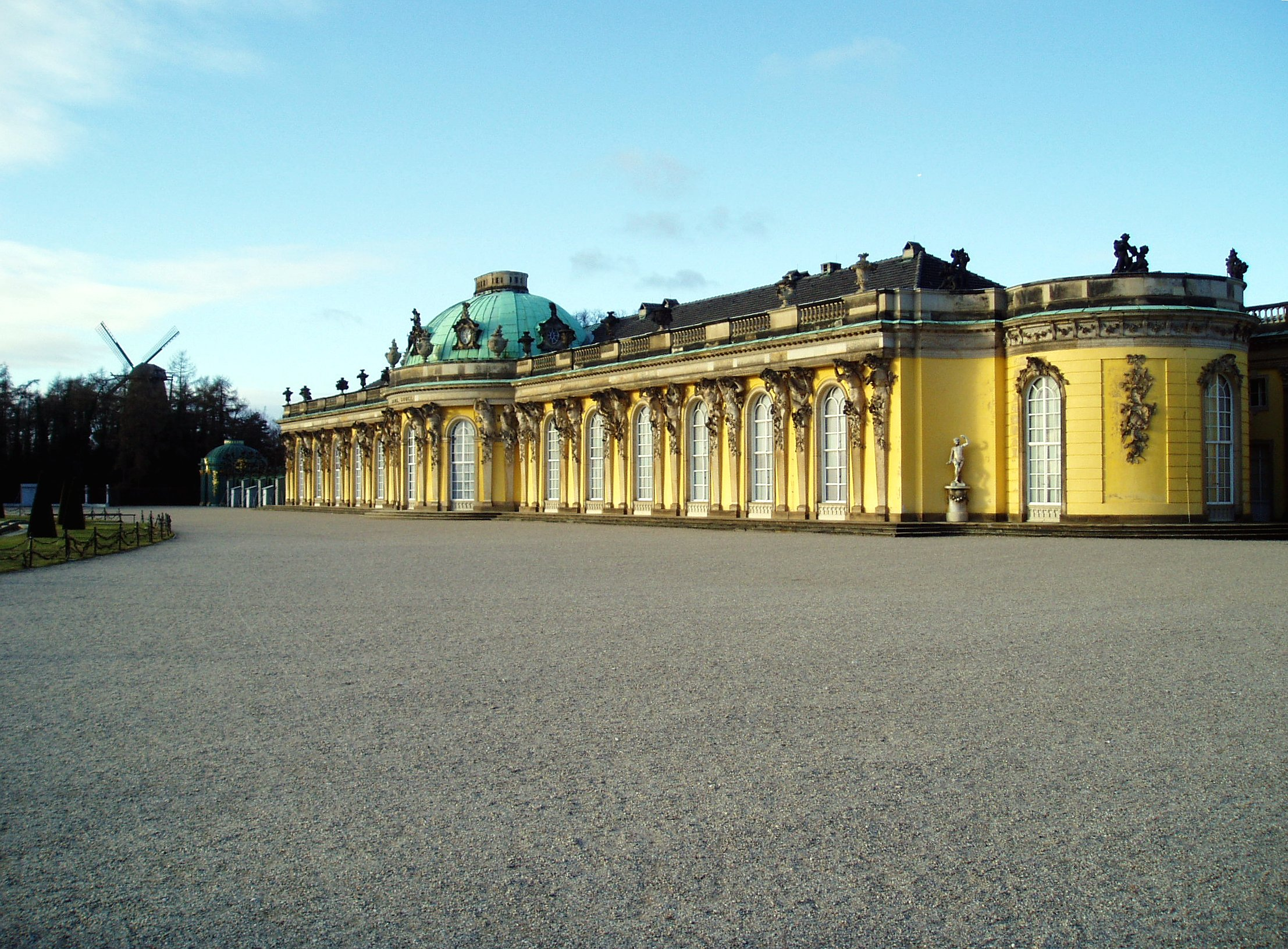 Sanssouci - south side with the royal apartments in the eastern part. The circular library of Frederick II., known Frederick the Great, on the right side and the Historical Windmill in the background